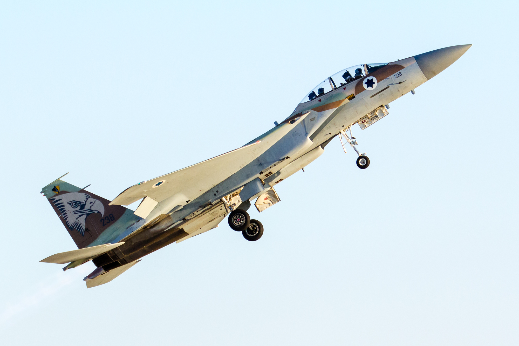 Israeli Air Force 69 Squadron F-15I Raam taking off into the sunset